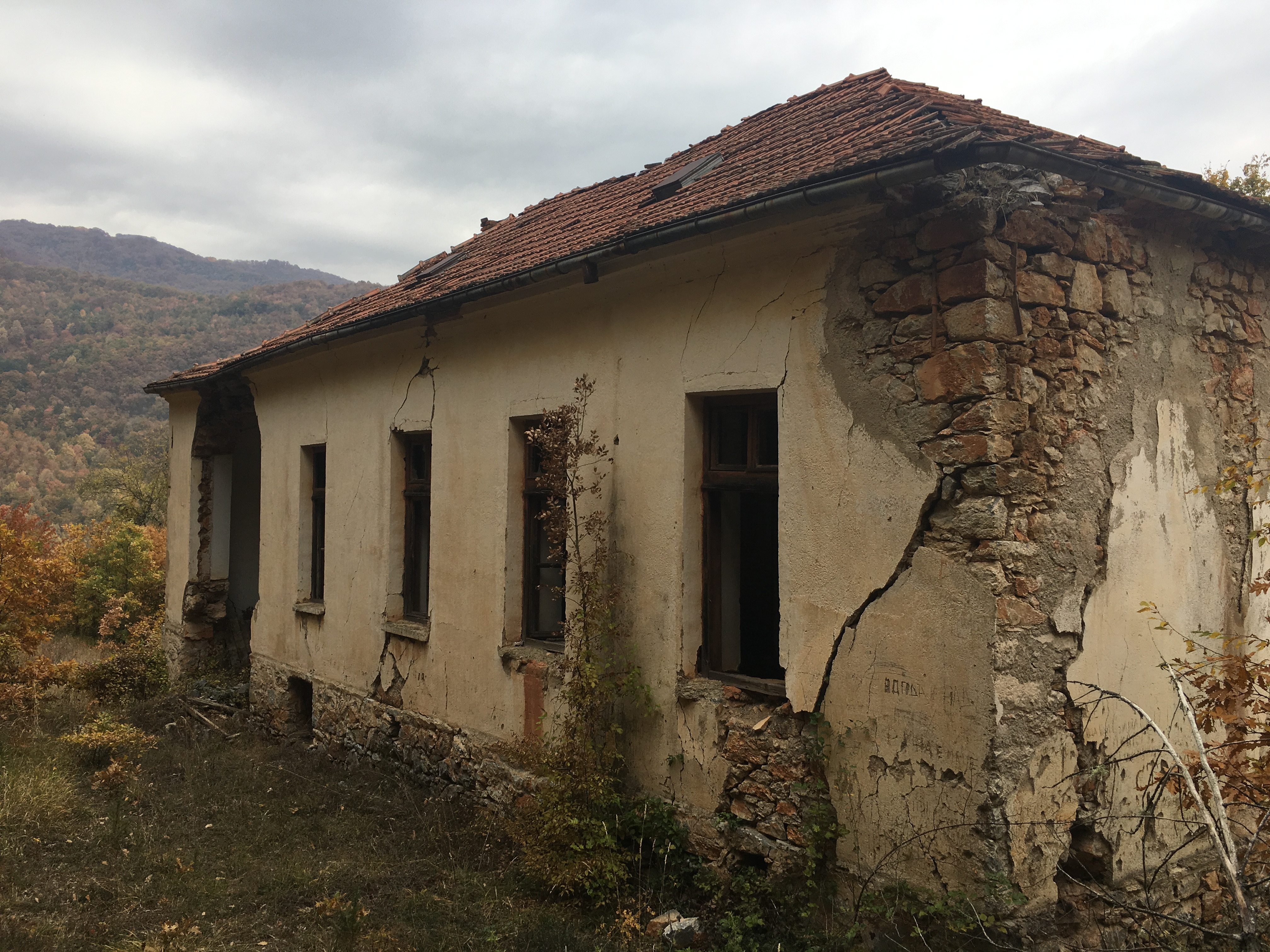 Wikiexpedition to Kopačka